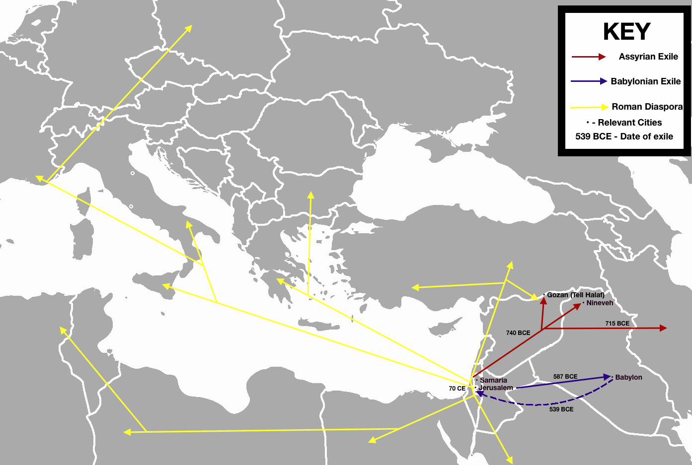 Path of Jewish expulsions. Own work based on